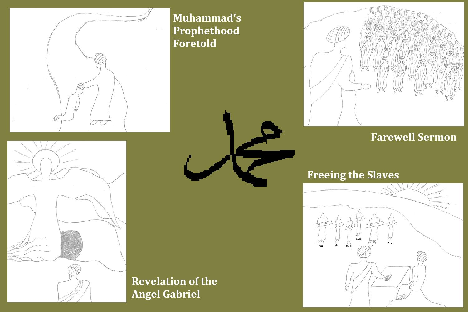 A respectful image created for Draw Muhammad Day, May 20, 2010. Portrays Muhammad at several pivotal points in his life and work. These include: Muhammad's prophethood being foretold by Bahira, the angel Gabriel's revelation to Muhammad, Muhammad freeing/emancipating slaves (buying them only to free them), and Muhammad's Farewell Sermon. Image was conceived as a means of achieving the goals of Draw Muhammad Day without unnecessary insult.